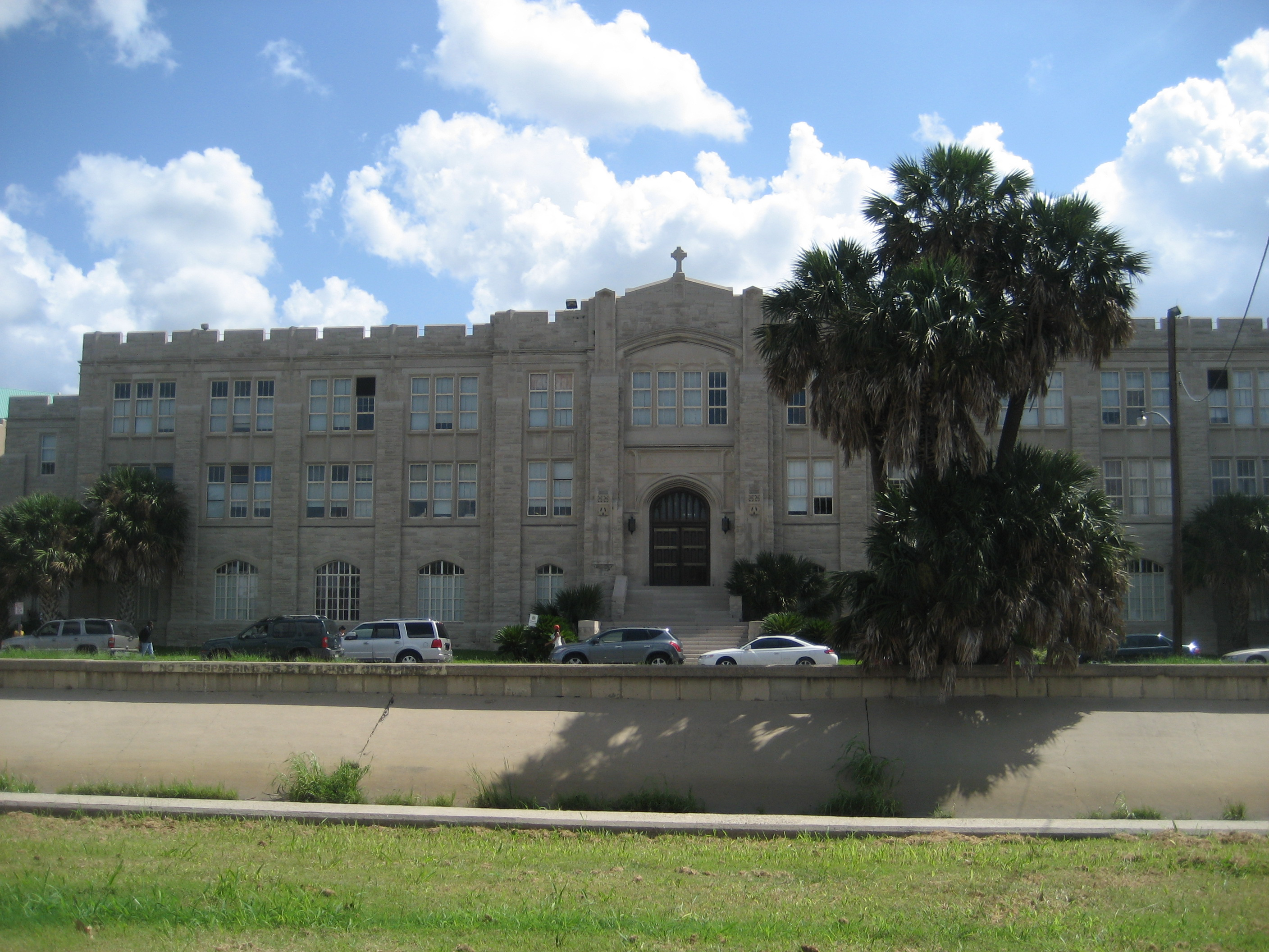 New Orleans: Portion of the Xavier University campus seen from across the Palmetto/Washington Avenue Canal.